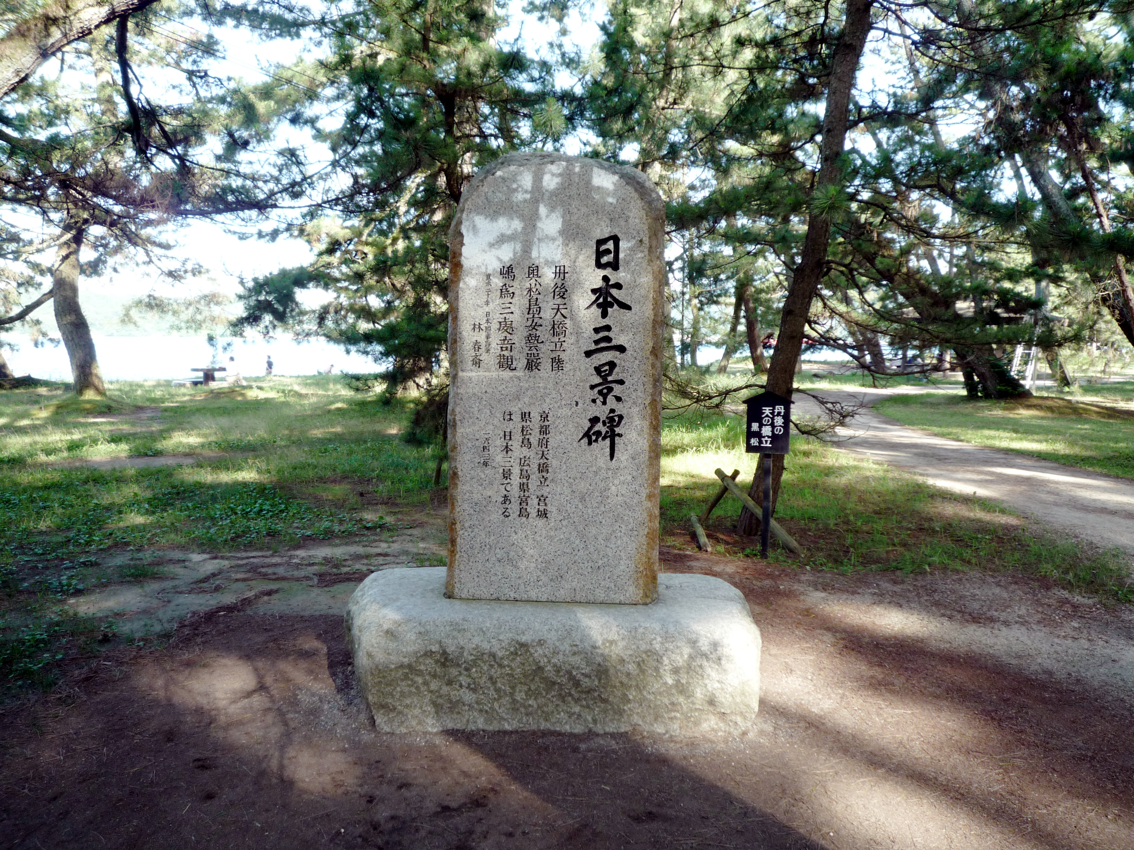 Three Views of Japan Stone Statue of Amanohashidate, Miyazu City, Kyoto Prefecture, Japan.